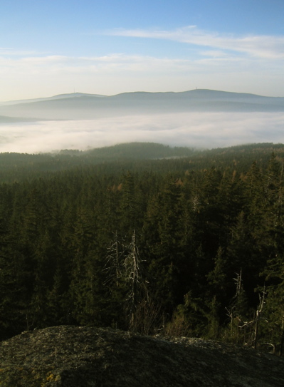 The High Fichtelgebirge mountains seen from the Haberstein